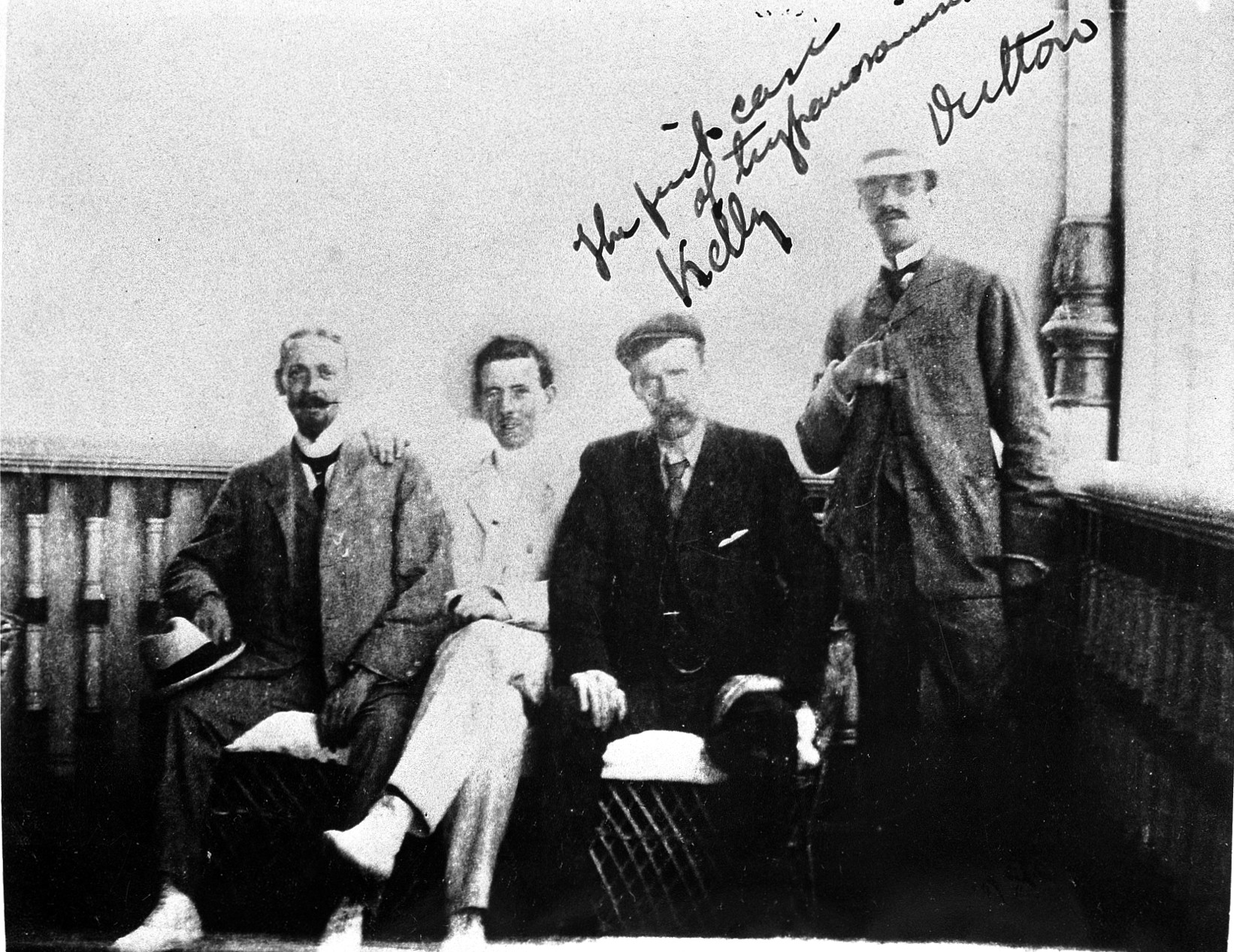 Photograph of Dutton and Forde. From en: wiki: "In 1901, Robert Forde was working at the hospital in Bathurst, Gambia, when he made the first definitive observation of trypanosomes in a human being when he unknowingly found them in the blood of H. Kelly, a 42-year-old steamboat master on the Gambia River who had originally been thought to be suffering from malaria.[8][9] Kelly had been working on the river for six years and had been ill with malaria on several occasions. Forde thought the "small worm-like, extremely active bodies" were filiarae (a type of parasitic nematode). Soon after, they were identified as trypanosomes by Joseph Everett Dutton who wrote that it was "impossible to decide defi­nitely as to the species, but if on further study it should be found to differ from the other disease pro­ducing trypanosomes I would suggest that it be called Trypanosoma gambiensé" (now T. b. gambiense)." Archives & Manuscripts